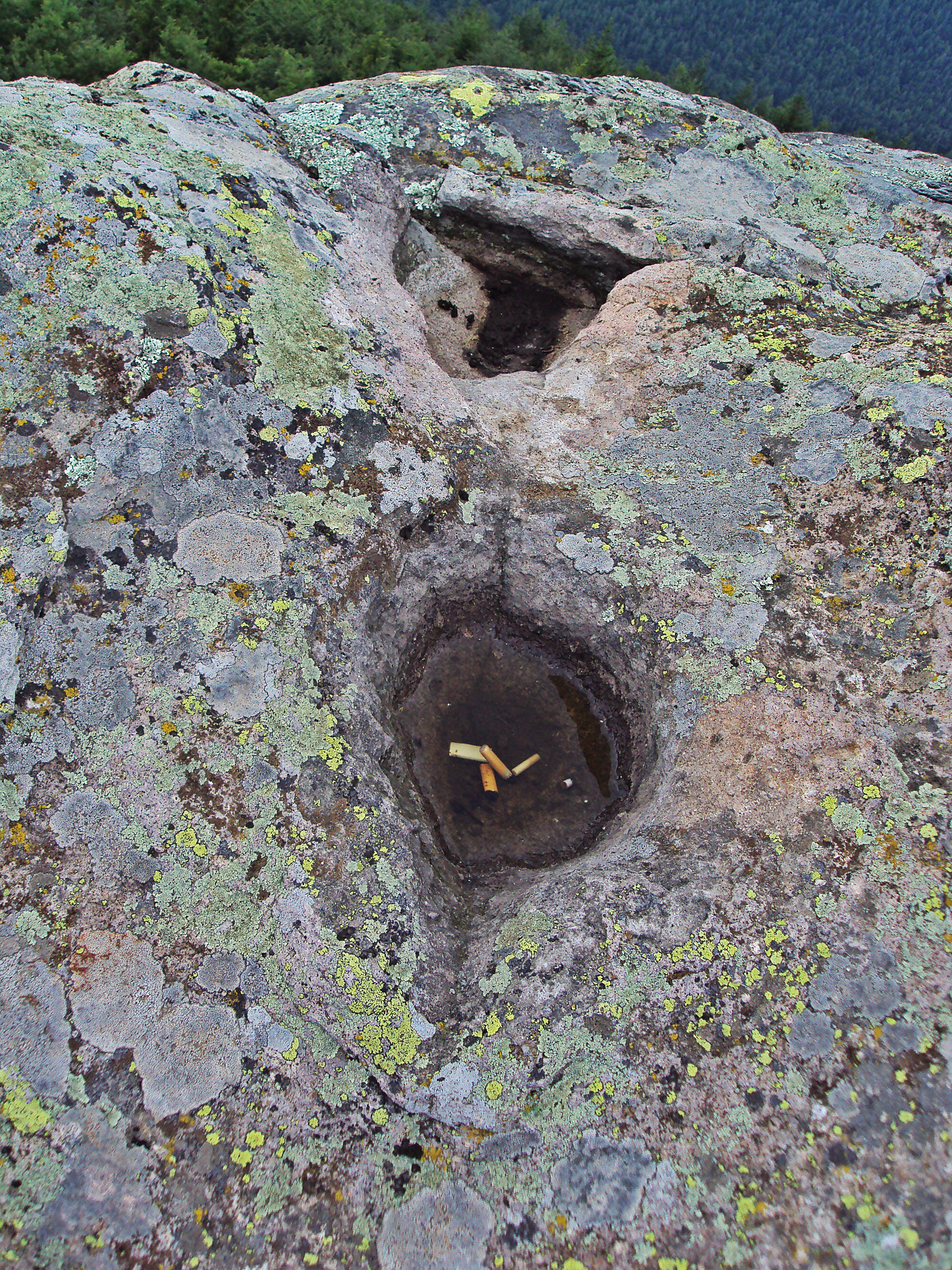 Fagz Belintash BG